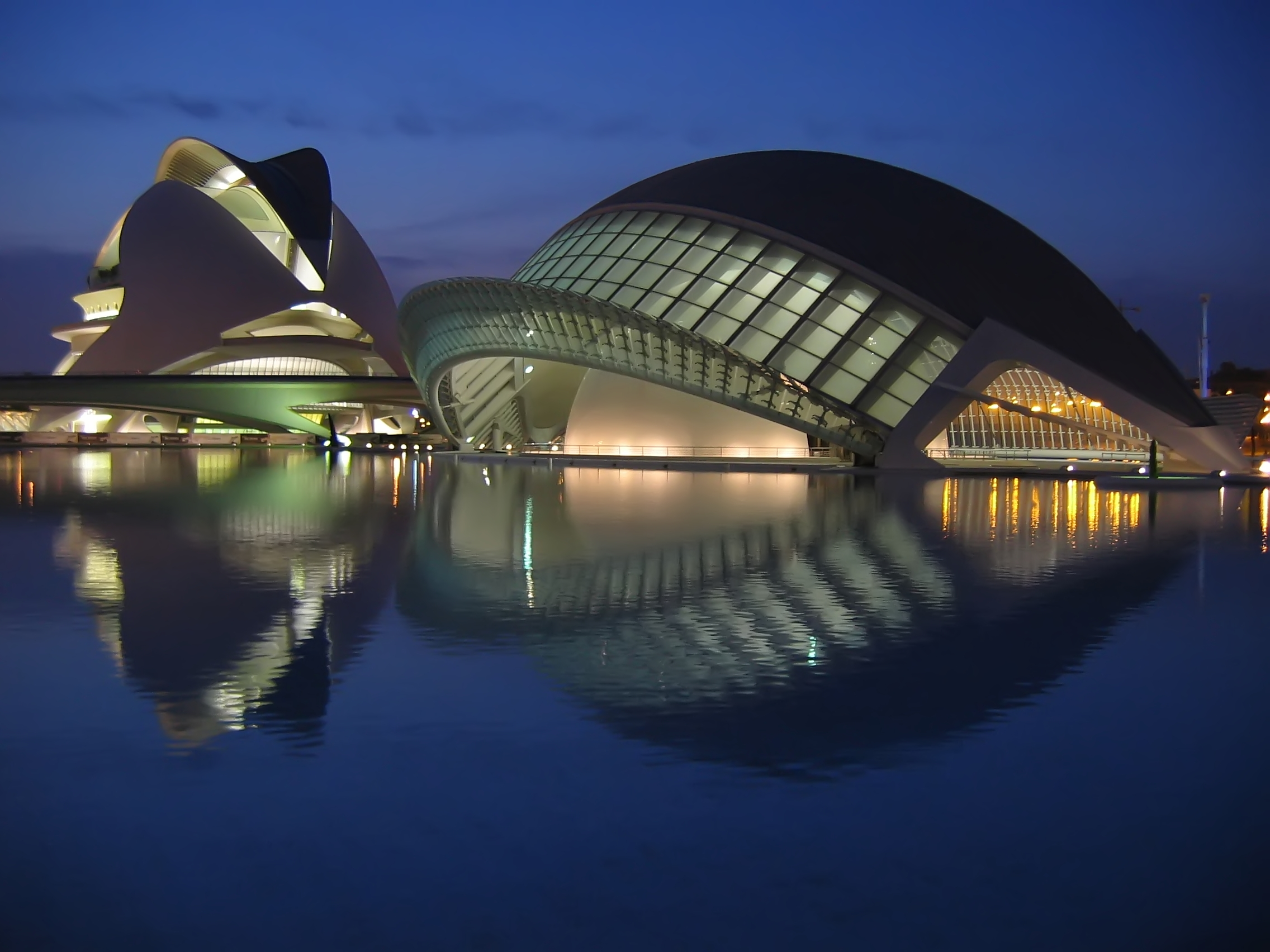 Author Chosovi Noise reduction: Arad Mojtahedi